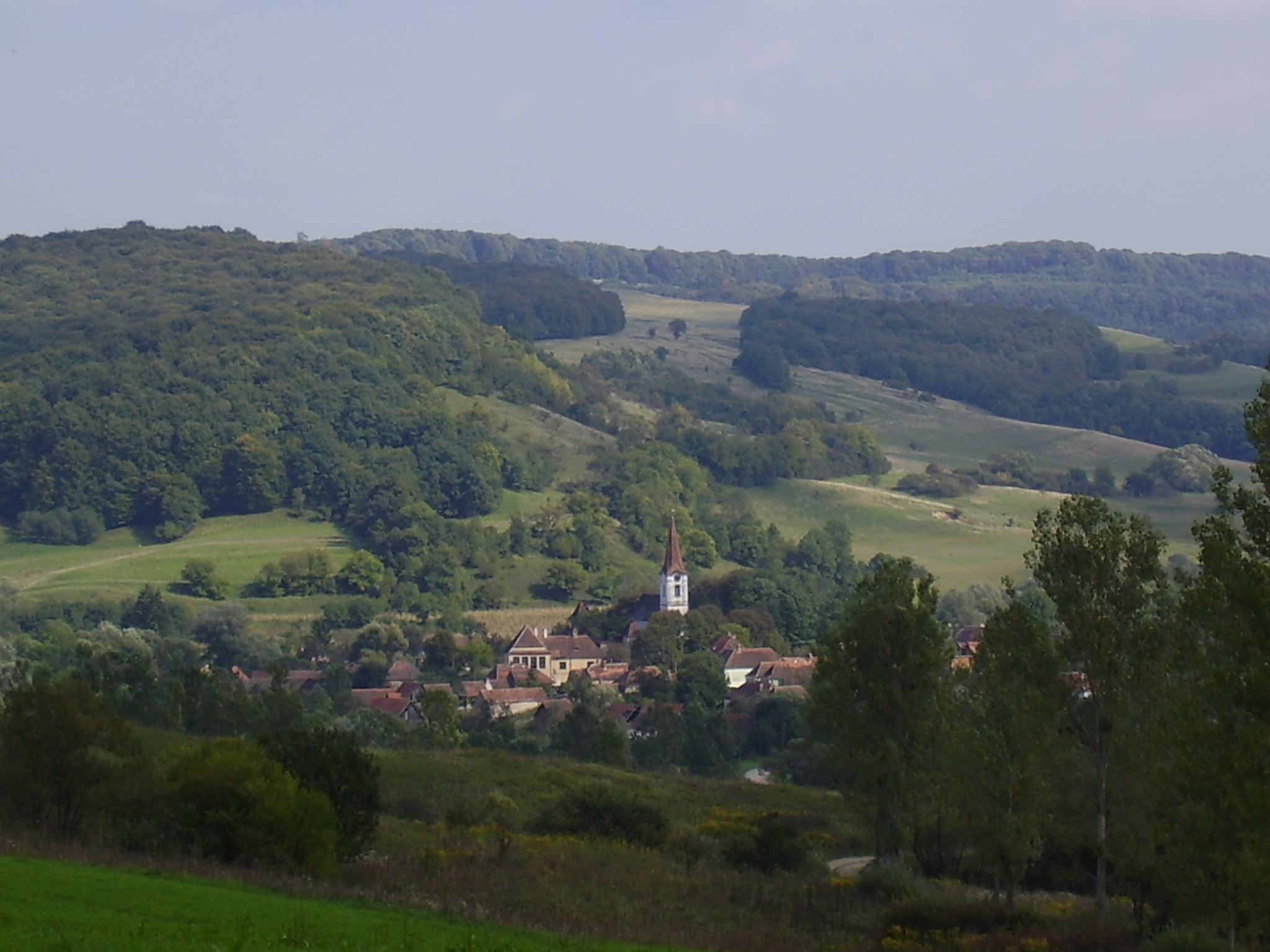 View of Gherdeal (Gürteln) village, Sibiu County, Romania